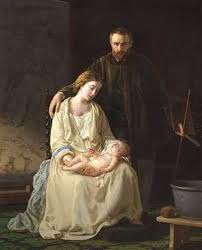 Lorenz Frolich with his With his wife and infant daughter, 1860